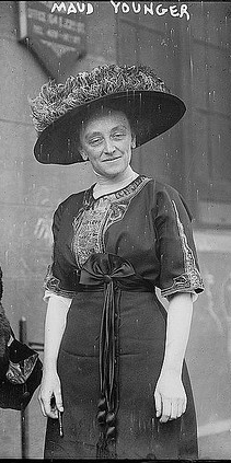 Maud Younger (1870-1936), American suffragist, feminist, and labor activist. Photo taken 1910-1915.